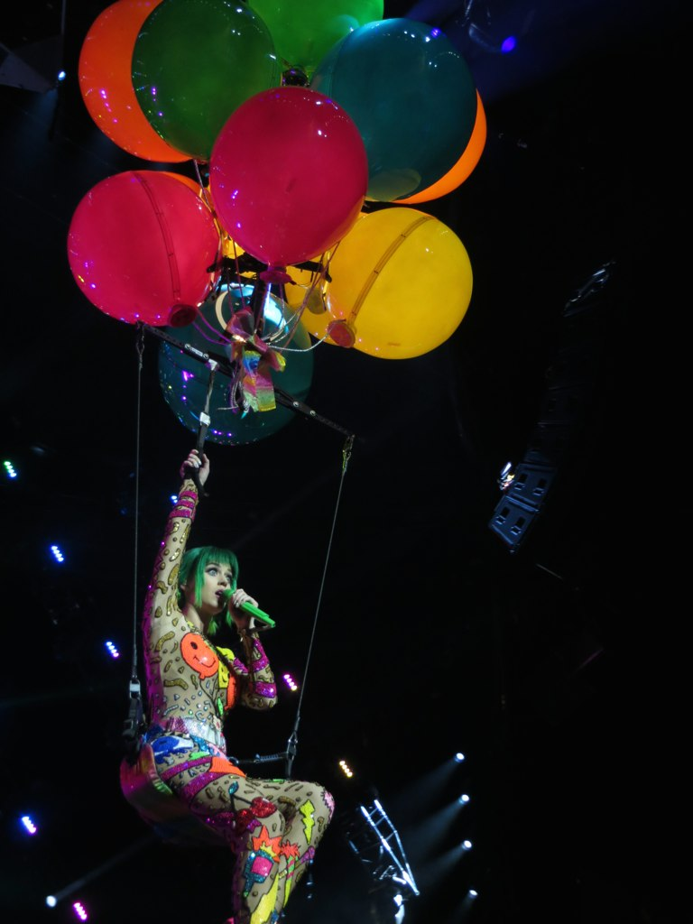 Katy Perry performing "Birthday", The Prismatic World Tour, Glasgow SSE Hydro 17 May 2014